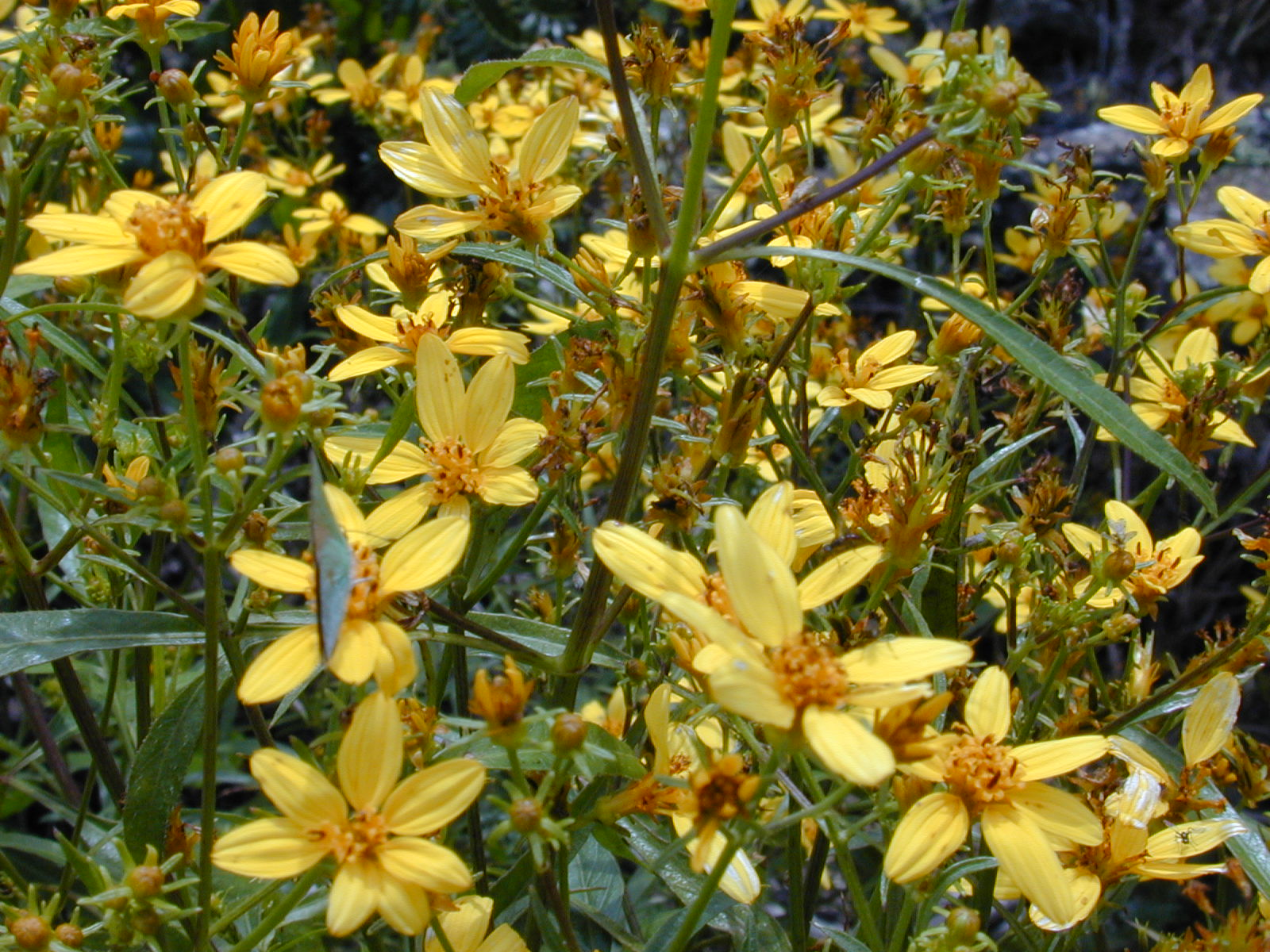 Bidens micrantha subsp. kalealaha (Udara blackburni on flowers). Location: Maui, Auwahi